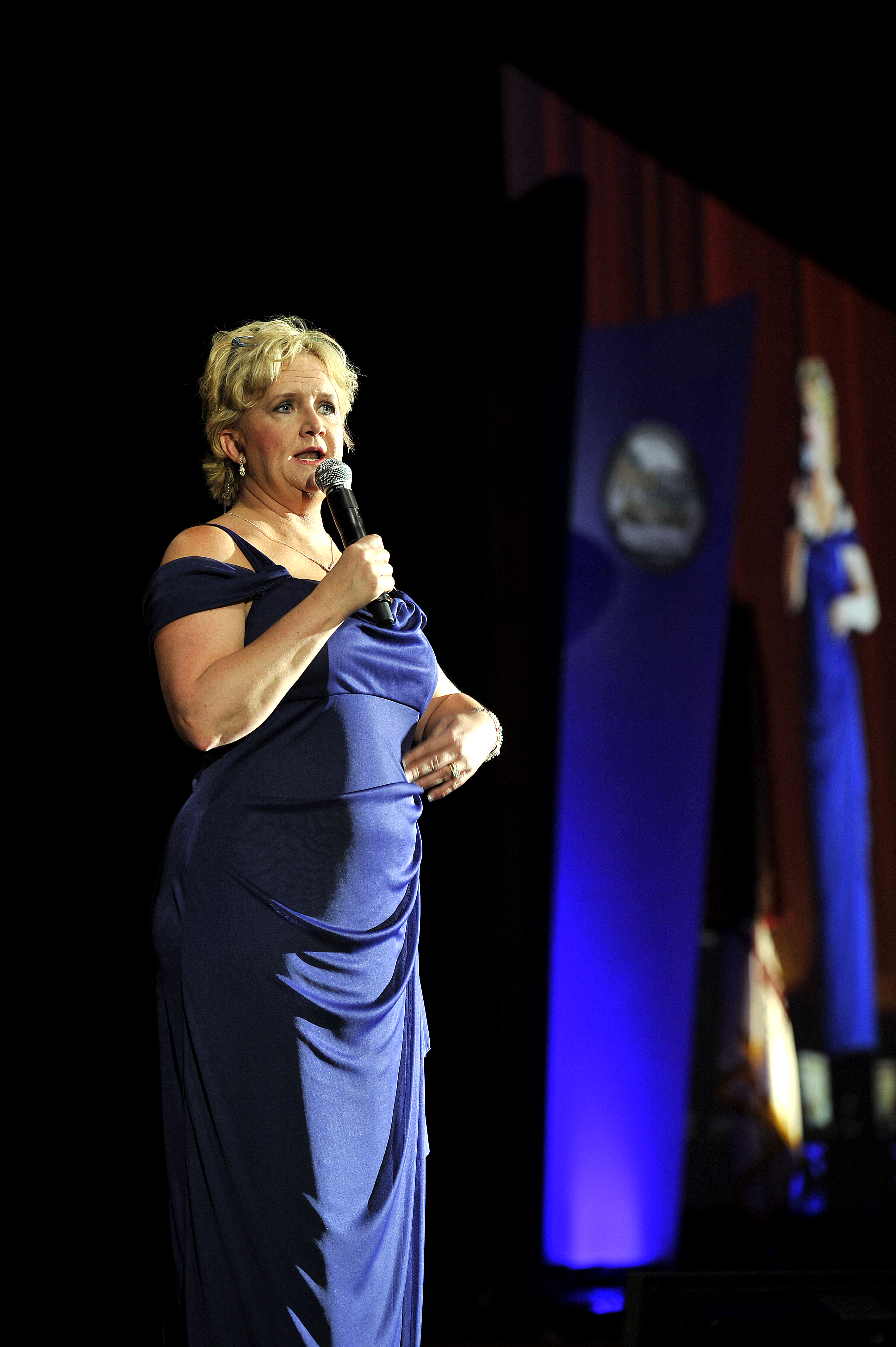 Comedian Chonda Pierce entertains the audience during the 236th U.S. Army Birthday Ball at the Gaylord National Resort and Convention Center in National Harbor, Md., June 11, 2011.